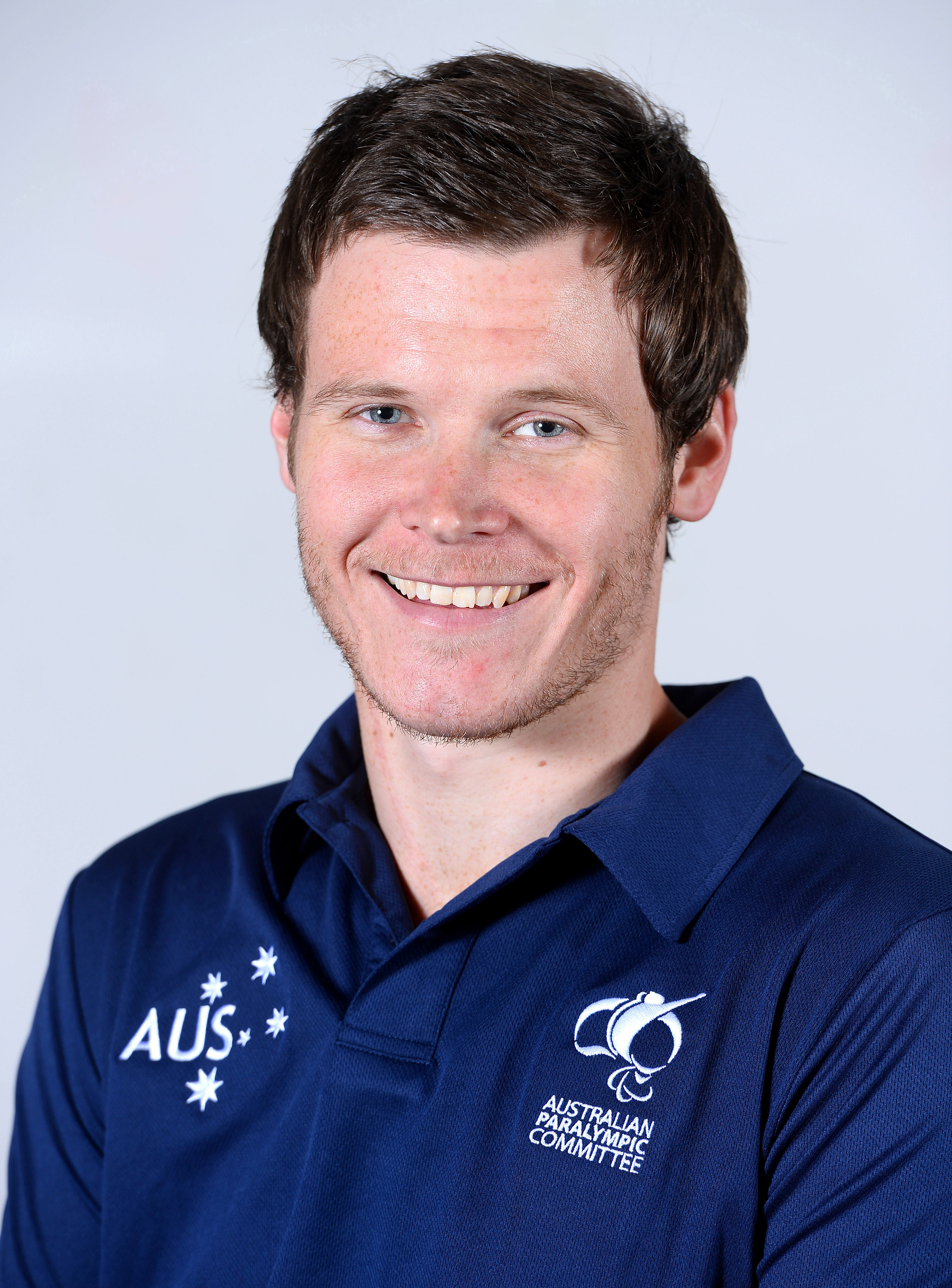 Portrait photograph of Andrew Edmondson taken at team processing session for shadow members of 2016 Australian Paralympic team